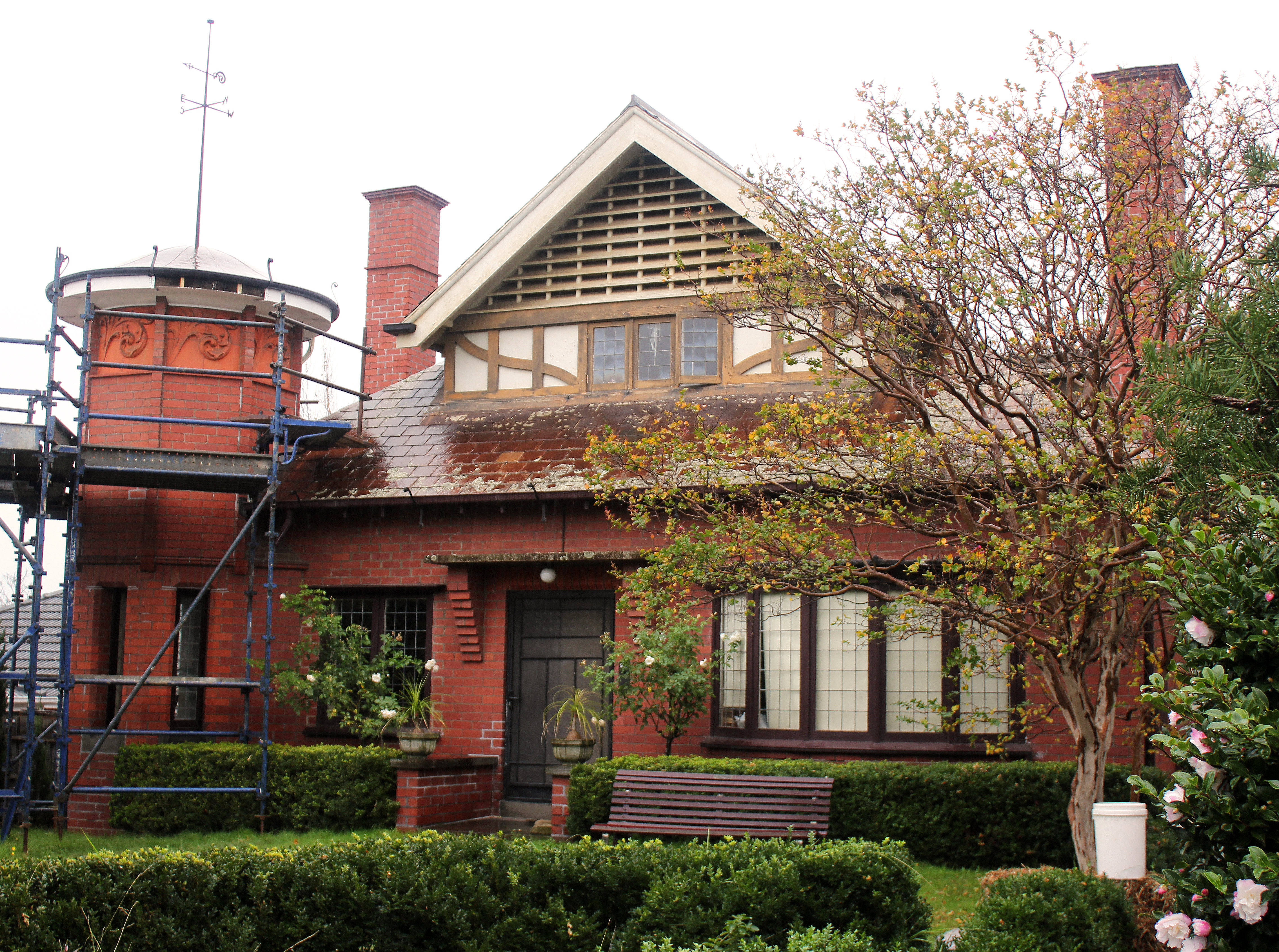 Anselm. 4 Glenferrie St, Caulfield North, Victoria, Australia. Designed by Robert Joseph Haddon, 1907.